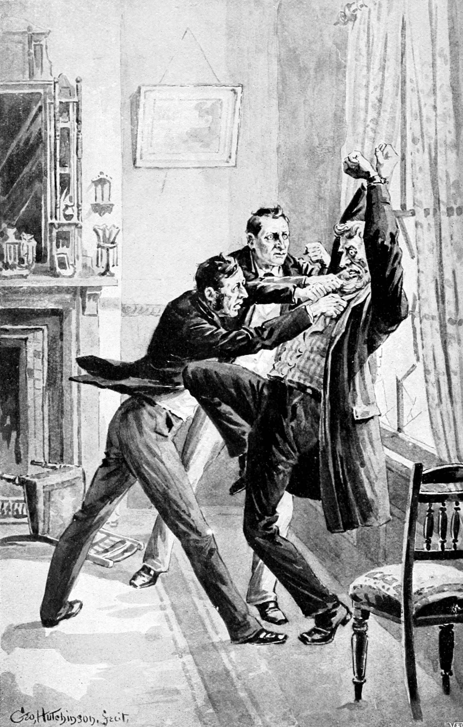 This is a plate from the 2nd edition book printing of A Study in Scarlet by Arthur Conan Doyle. 1891 - Ward, Lock & Bowden Edition